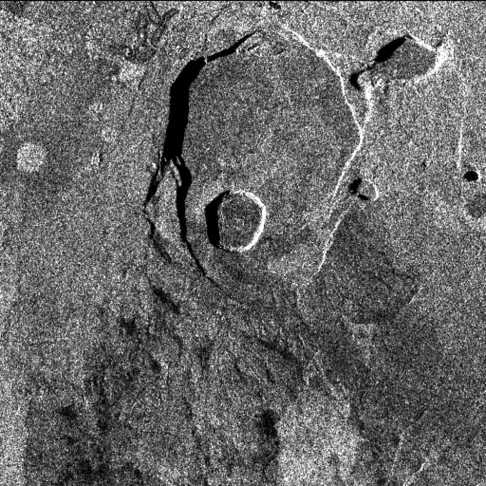 PIA01763: Space Radar Image of Kilauea, Hawaii - interferometry 1